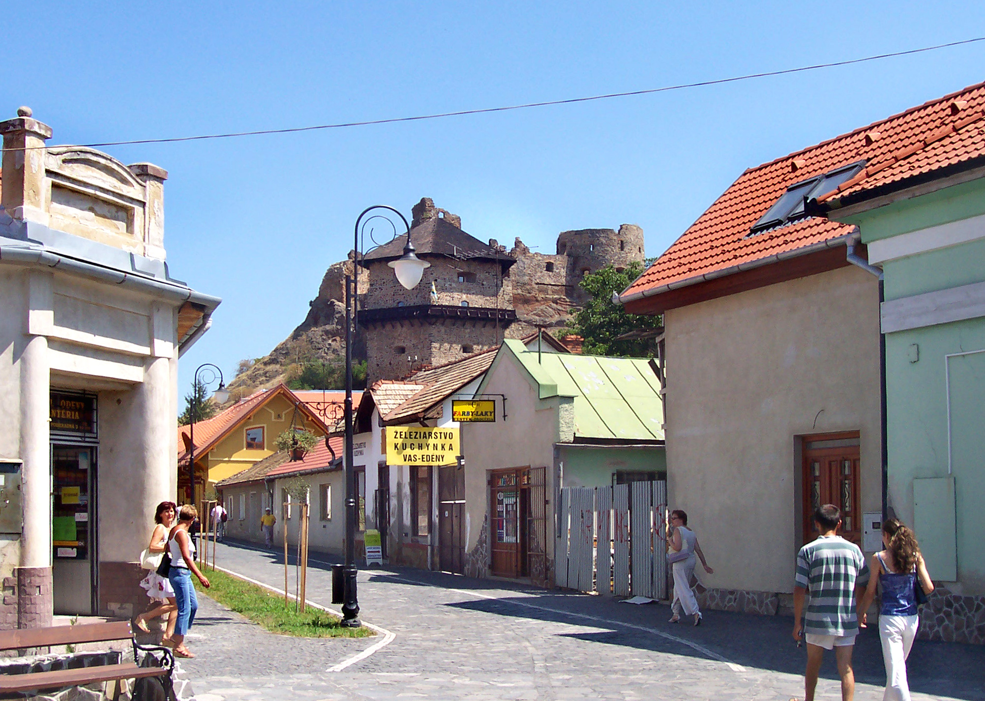 Shopping street at Fiľakovo. Novohrad Region, Slovakia